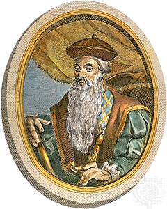 Afonso de Albuquerque It was made 1792. The artist must be dead 70 years by now. If the artist was 1 when he engraved it, then lived a 120 years, 70 years after his death would be 1982.